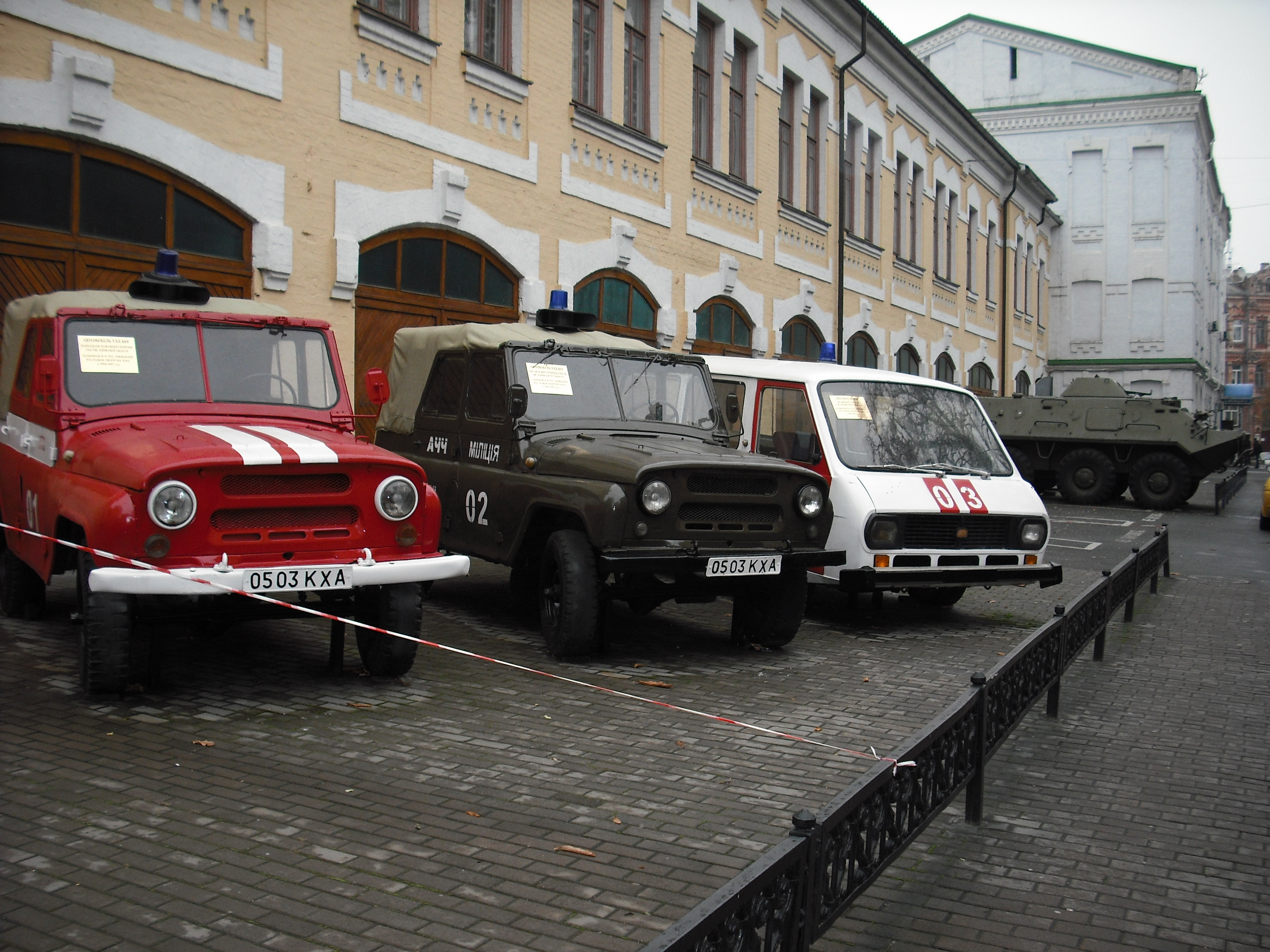 Kiev - Ukrainian National Chernobyl Museum in Kiev. Open-air exhibit of the Soviet vehicles used for Chornobyl disaster response. Left to right: fire brigade jeep, police jeep (both UAZ-469); ambulance (a RAF-2203); BTR-60 armoured personnel carrier.